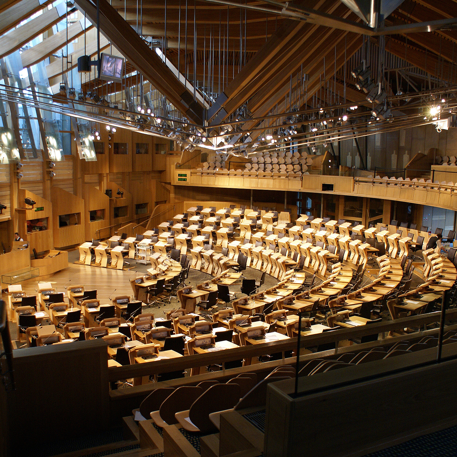 Scottish Parliament, Holyrood, Edinburg